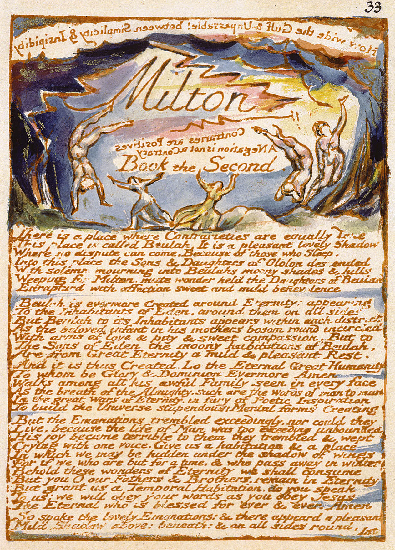 Milton a Poem, copy D, object 33 (Bentley 30, Erdman 30 [33], Keynes 30)